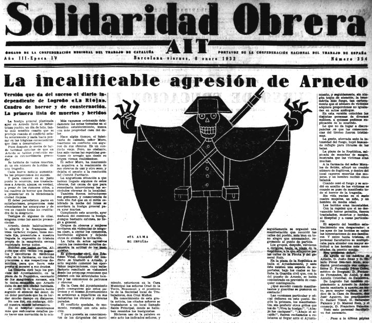 An agent of the Spanish Civil Guard characterized as the Grim Reaper, in a caricature of anarchist newspaper Solidaridad Obrera in response to the actions of the police force during the Arnedo incident. January 8, 1932.